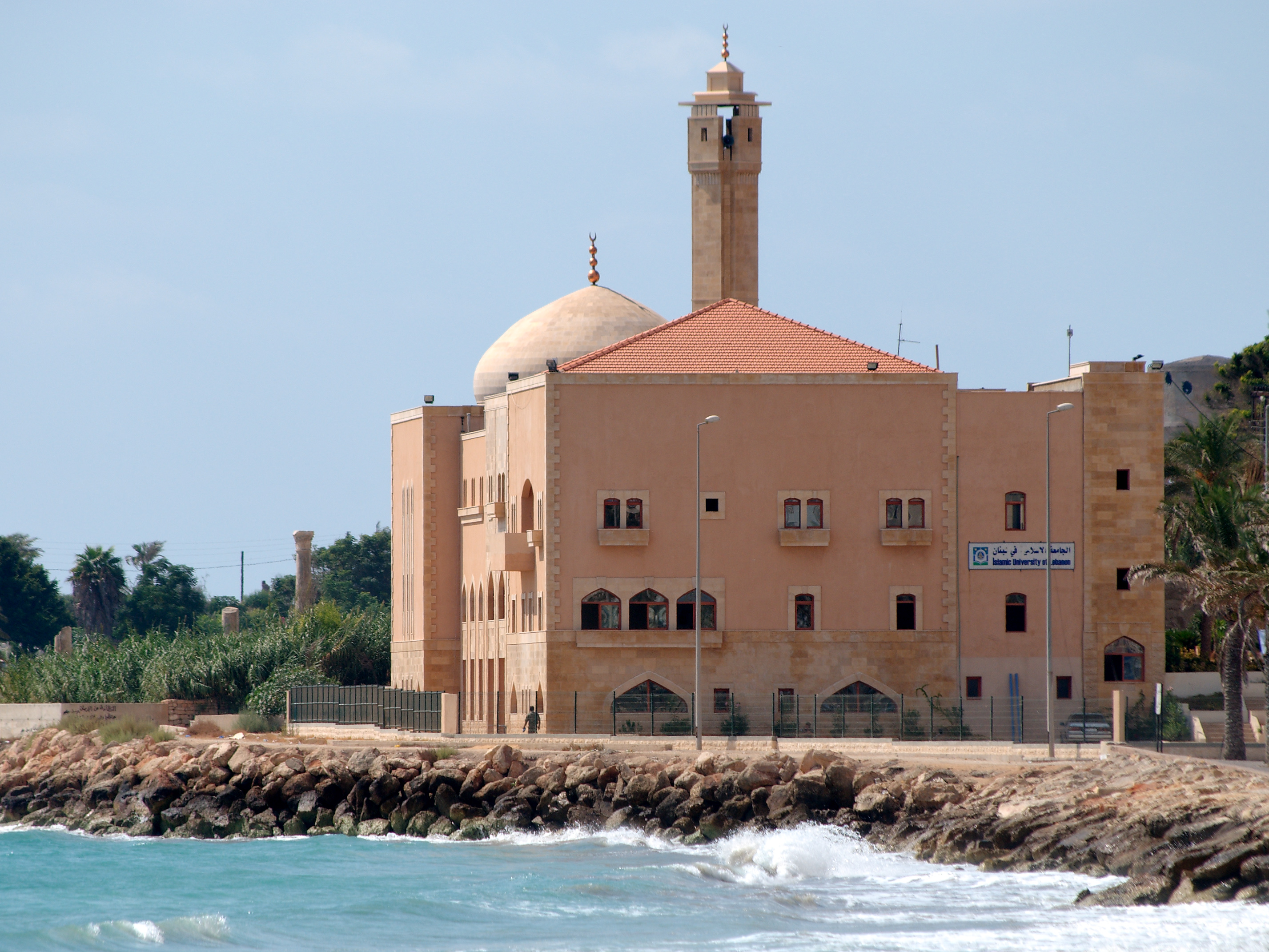 The Islamic University of Lebanon on the seafront of Tyre, Lebanon